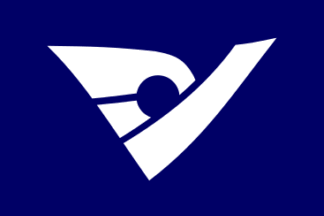 Flag of Shimojo Nagano